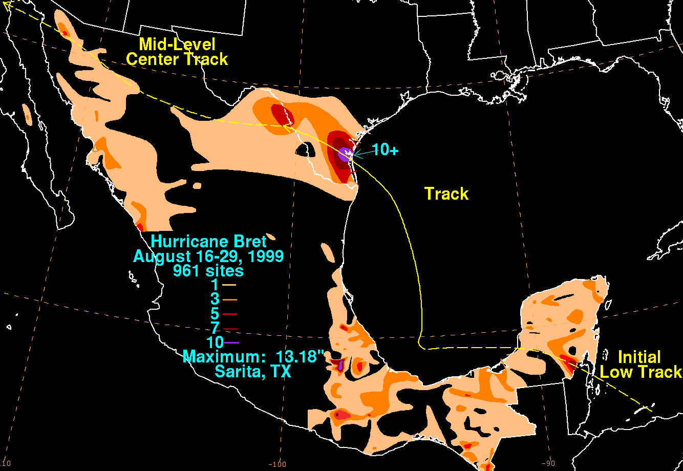 Rainfall produced by Hurricane Bret during August 1999.